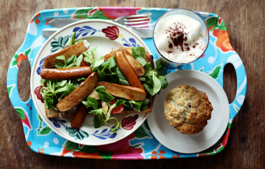 Vegan Sausages, vegan coffee latte and a vegan muffin